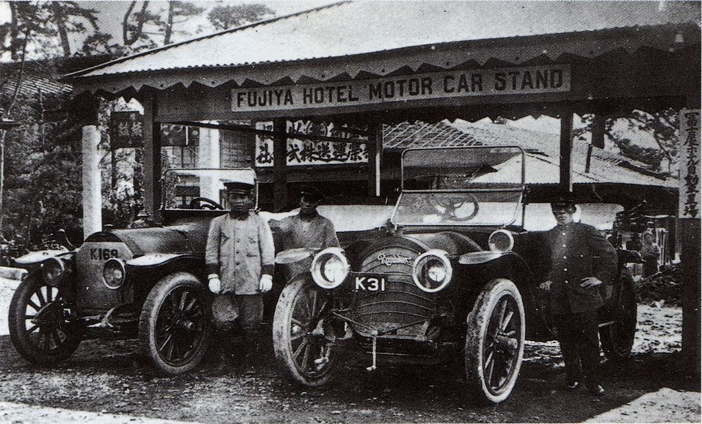 Fujiya Motors' Fiat (left) and Rambler (right)